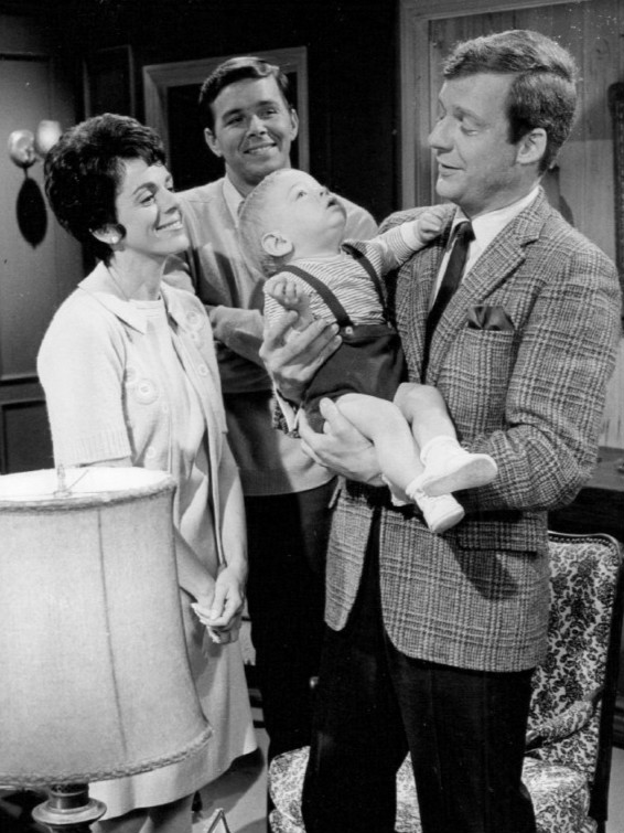 Photo of Ed Mallory as Dr. Bill Horton on the daytime drama Days of Our Lives. Mallory is holding young actor Chad Barstad while Joyce Easton and Robert Carraway look on.